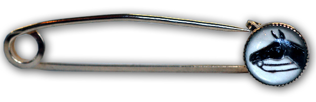 Gold filled stock pin with reverse crystal image of a horse head.